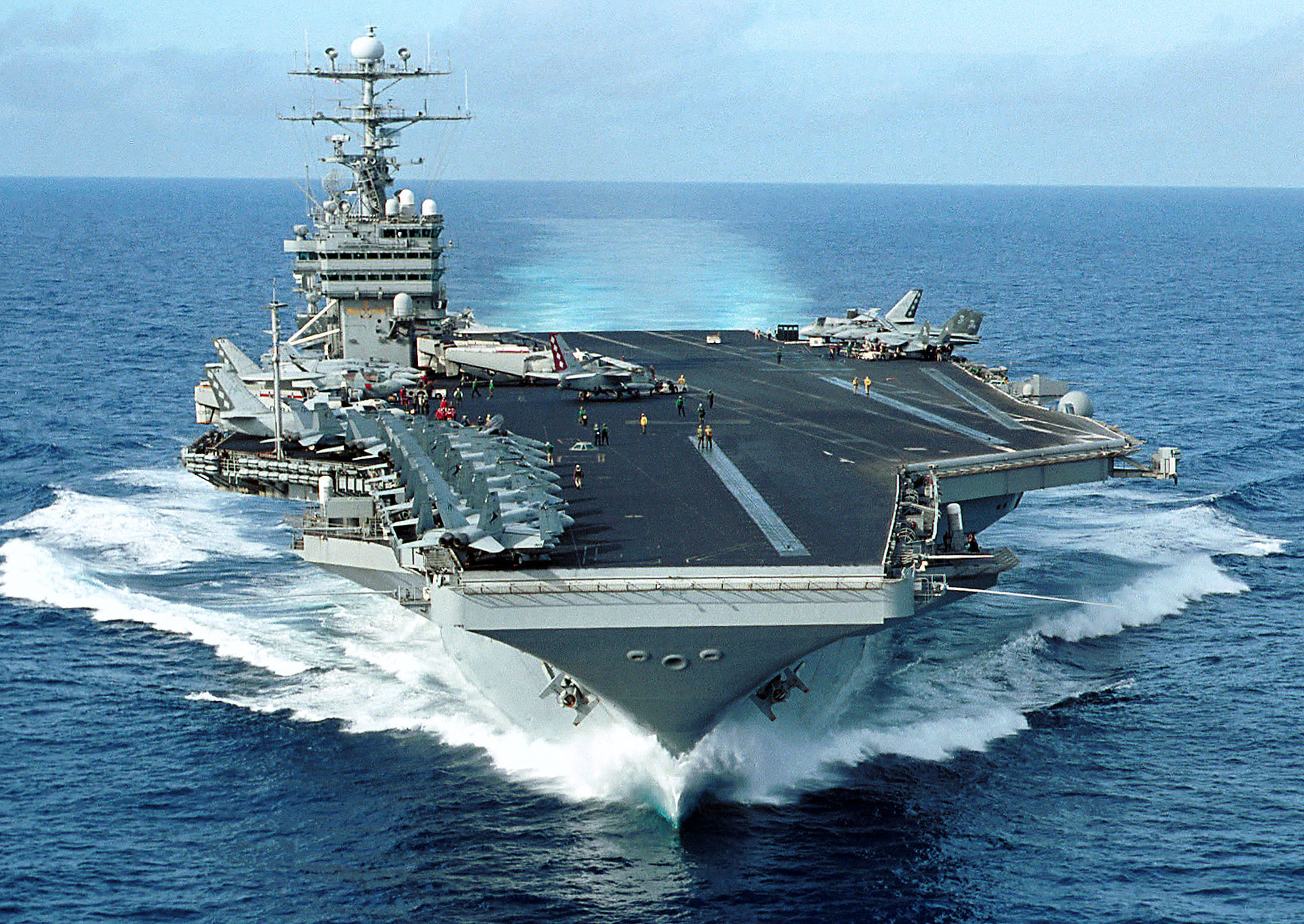 At sea with USS George Washington (CVN 73) Sep. 28, 2002 -- The nuclear-powered aircraft carrier transits the Atlantic Ocean as she and her embarked Carrier Air Wing Seventeen (CVW-17) return from a regularly scheduled deployment, after conducting missions in support of Operation Enduring Freedom and Operation Southern Watch. USS George Washington is homeported in Norfolk, Va. U.S. Navy photo by Photographer's Mate 3rd Class Summer M. Anderson. (RELEASED)